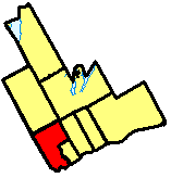 Format